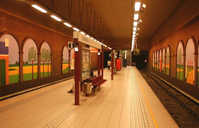 Platform of Clemenceau station, Brussels metro